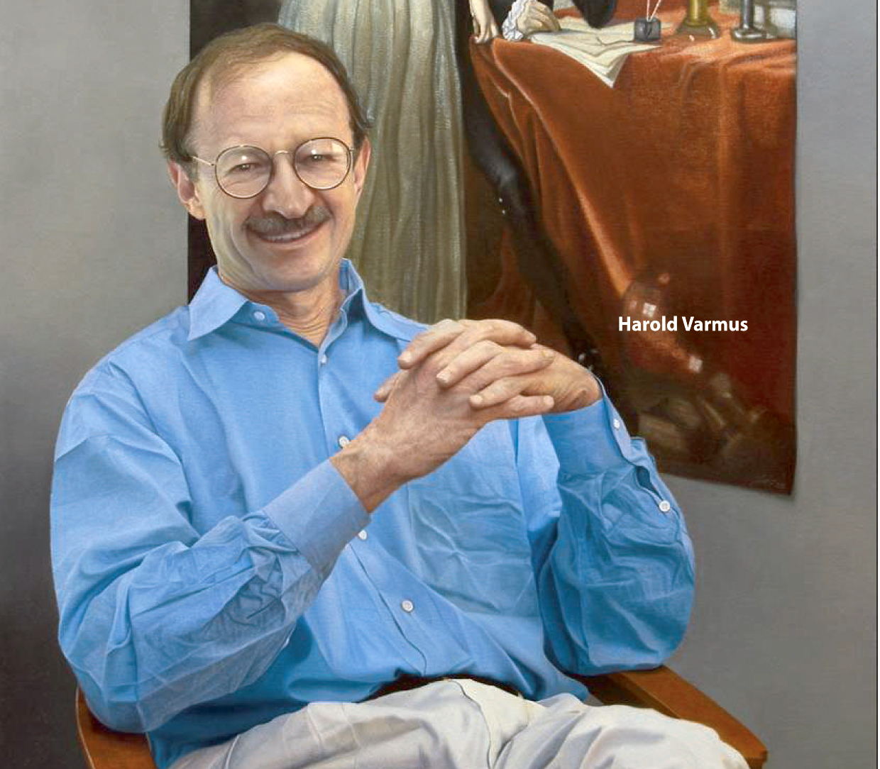 Harold E. Varmus